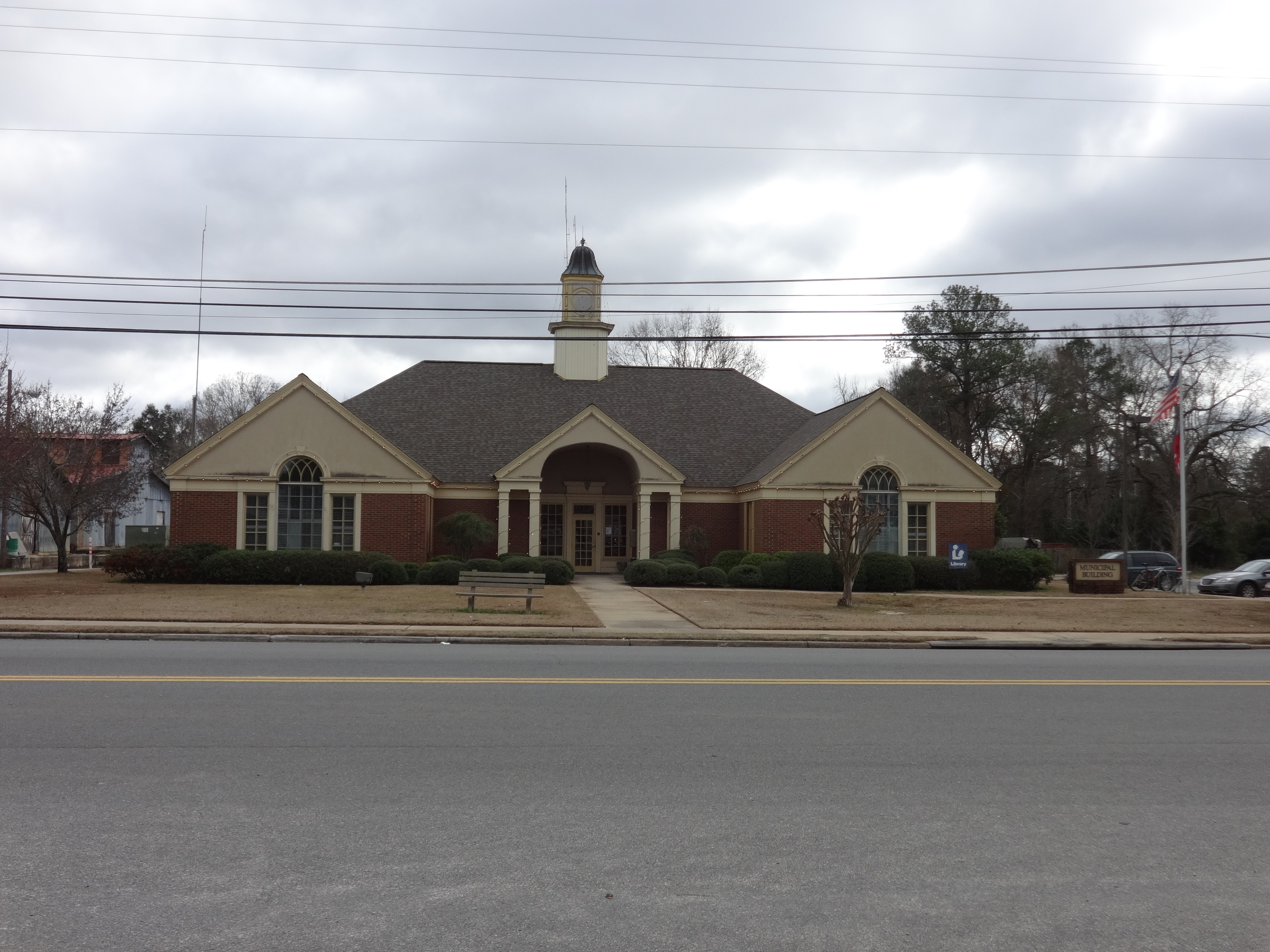 Oglethorpe municipal building (city hall, public library, fire department, development authority), Oglethorpe, Macon County, Georgia